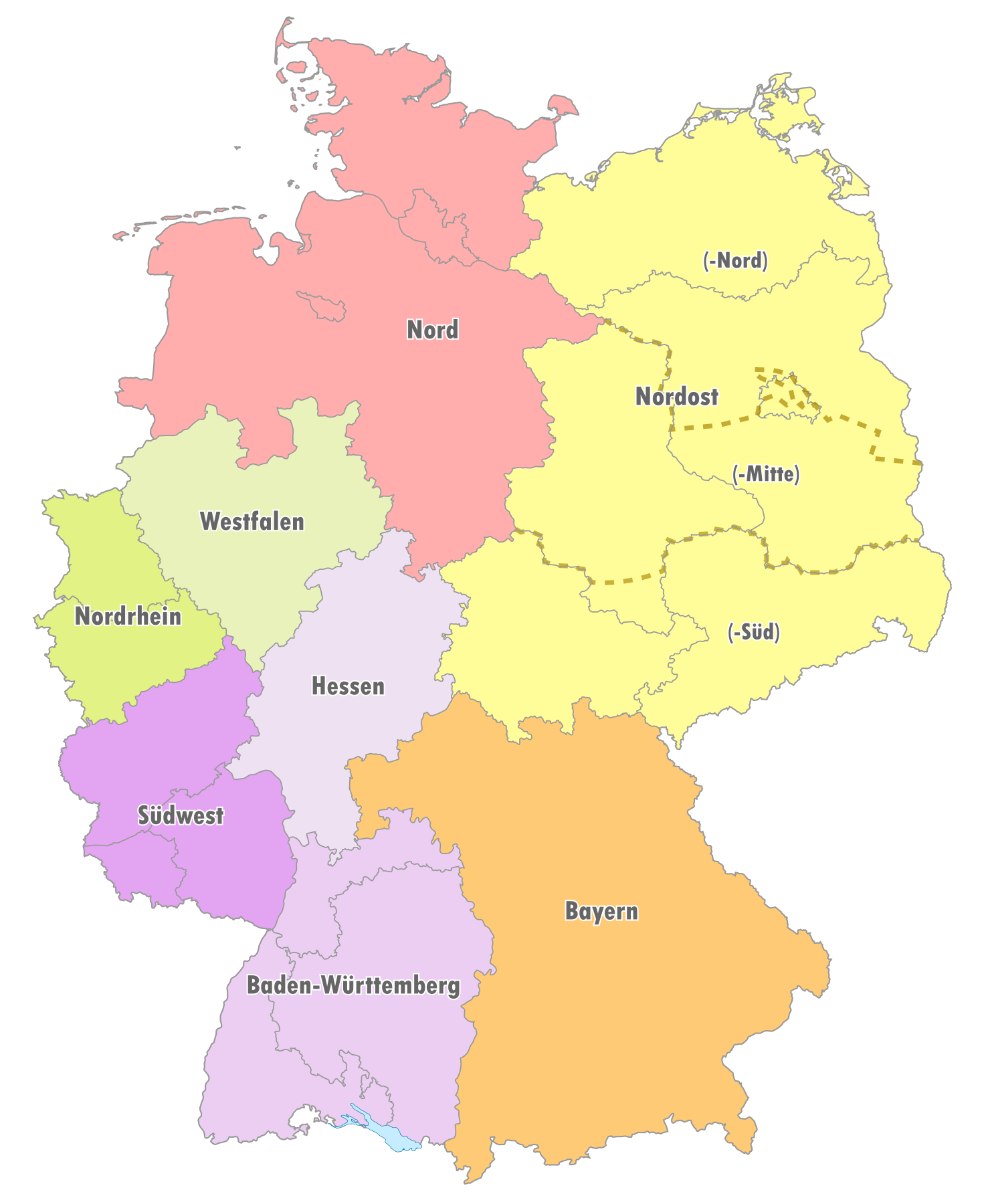 Map of German sub-regional soccer league, 1991-94